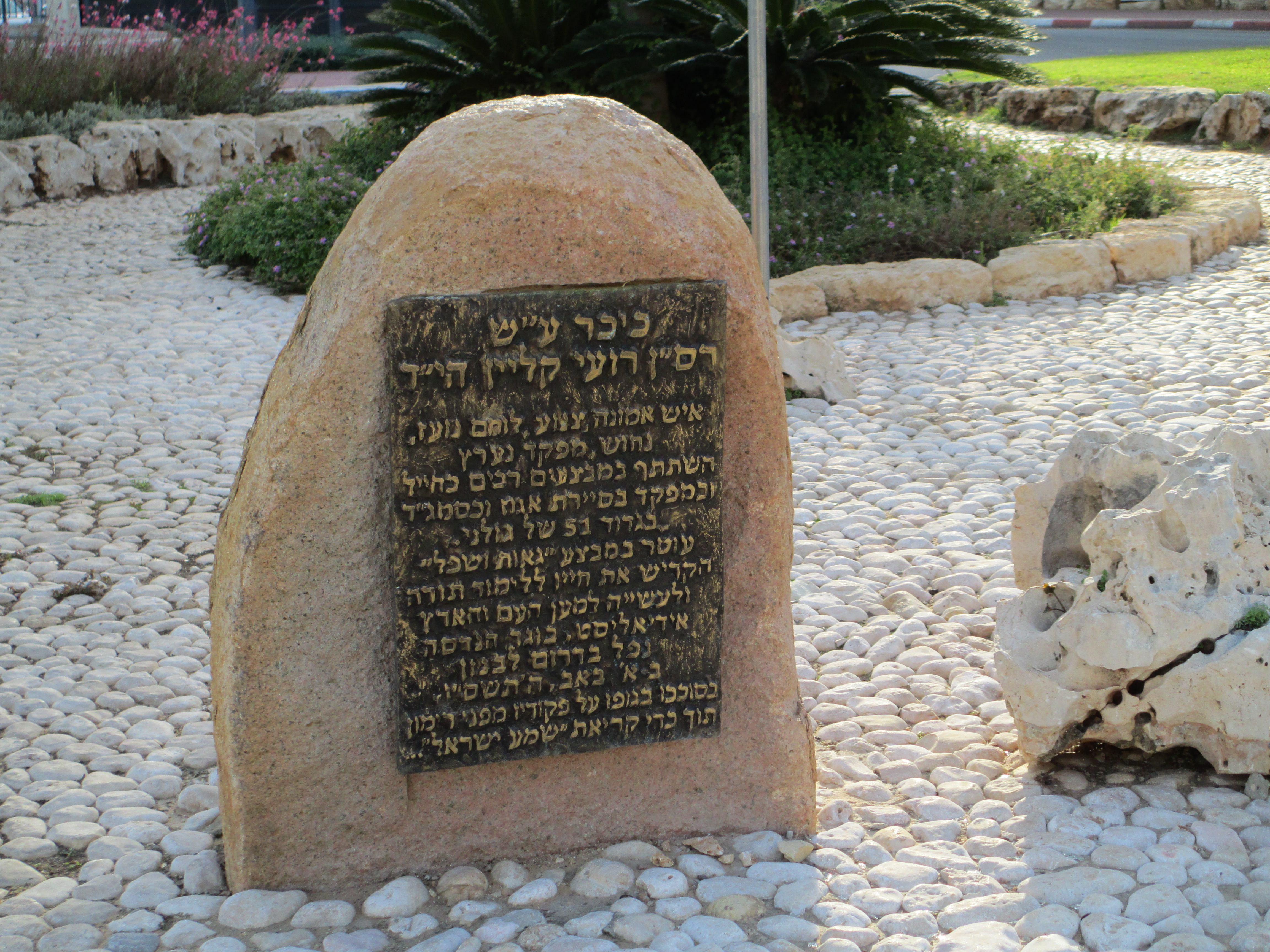 Roi Klein square in Giv'at Shmuel